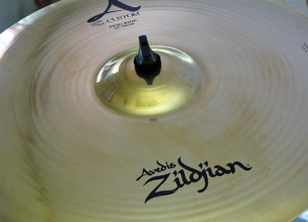 Zildjian A Custom 22" Ping Ride Cymbal